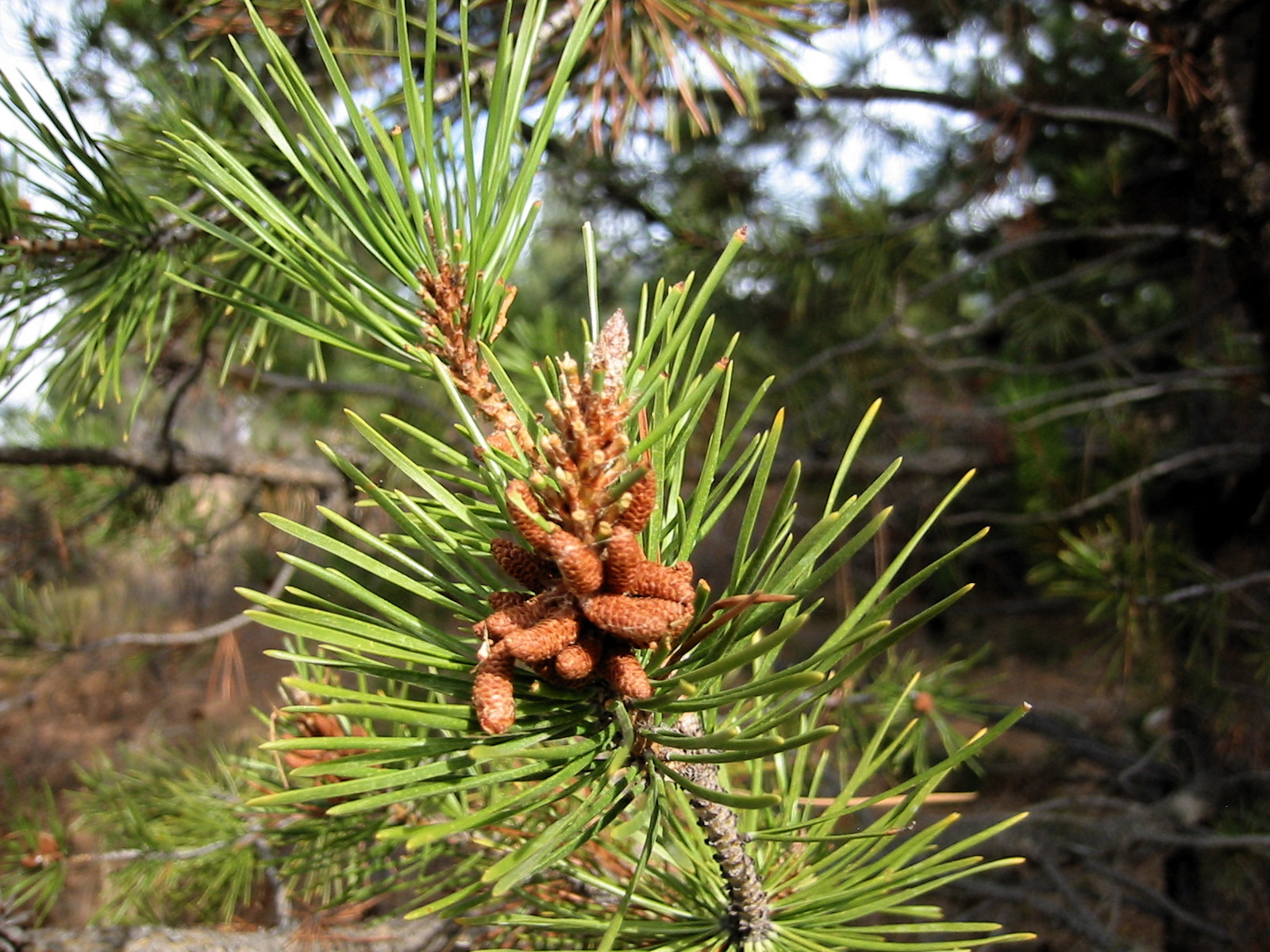 Tamarack Pine, foliage, male cones, and vegetative bud